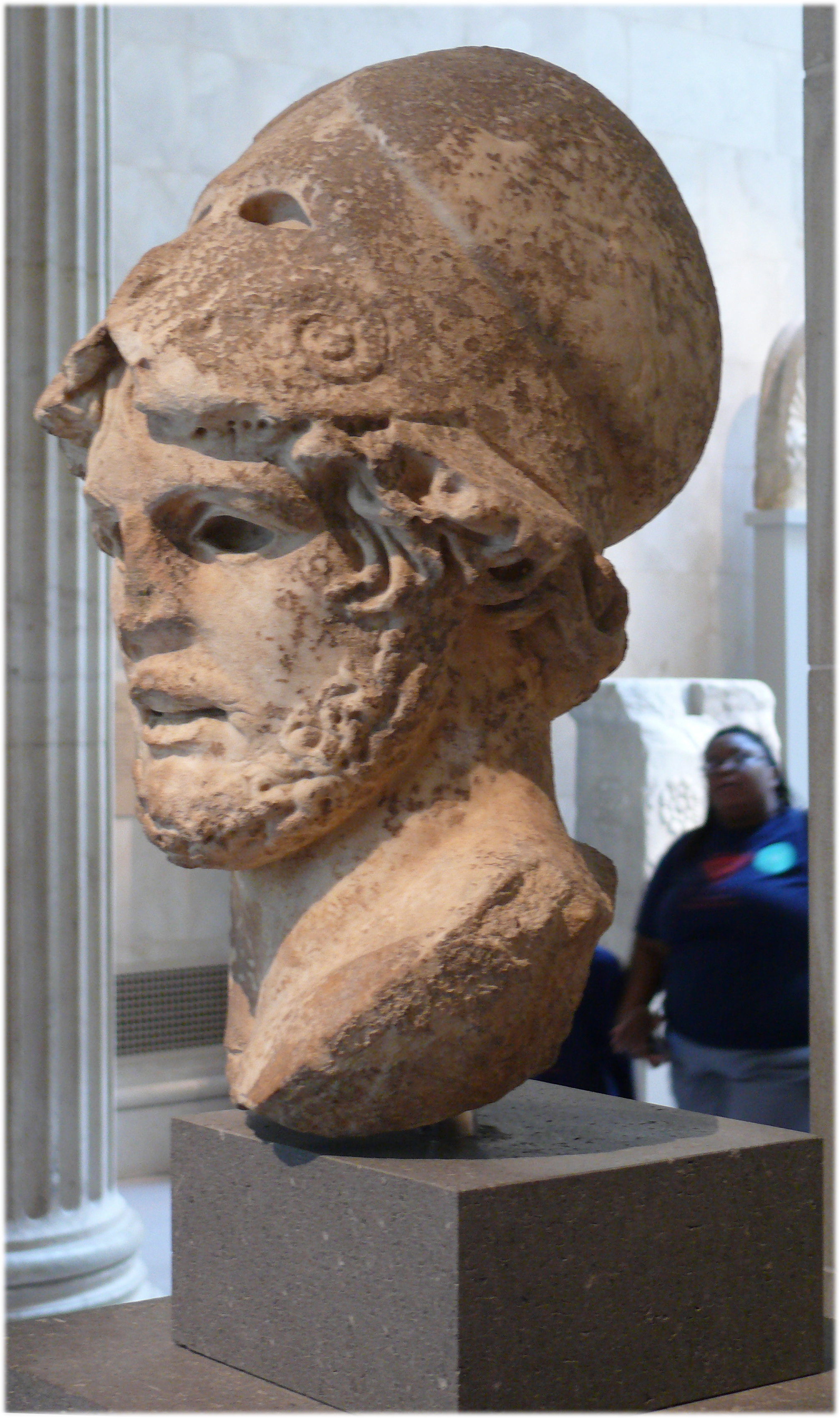 Head of a Greek general in the Metropolitan Museum of Art, New York, NY. Marble Roman, Imperial period, 1st - 2nd century copy of a Greek bronze statue of the 4th century BC Fletcher Fund 24.97.32